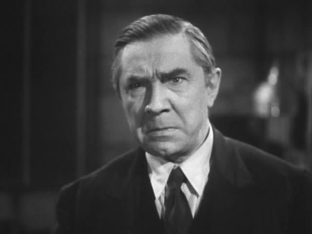 Bela Lugosi in "The Devil Bat" (1940), which is now in the public domain.